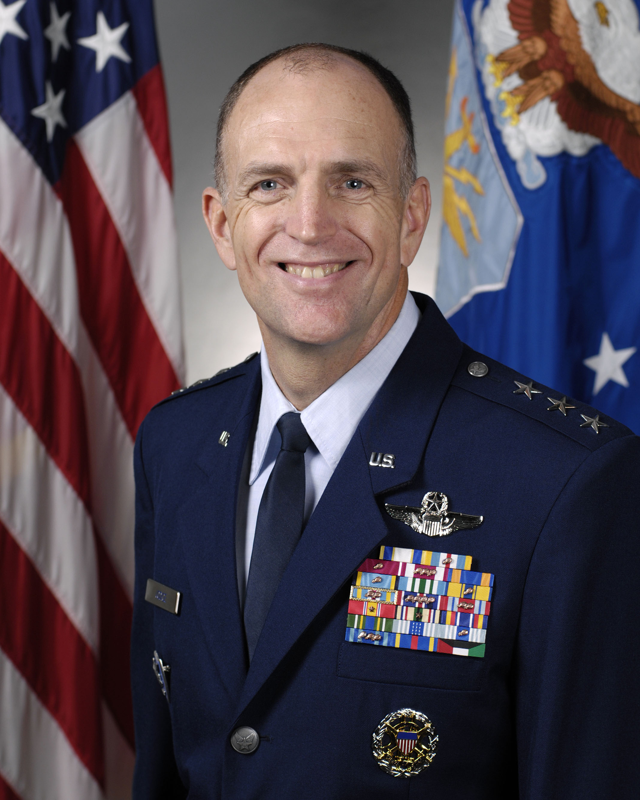 Lt. Gen. Ralph Jodice II, NATO HQ Allied Air Command Izmir commander.